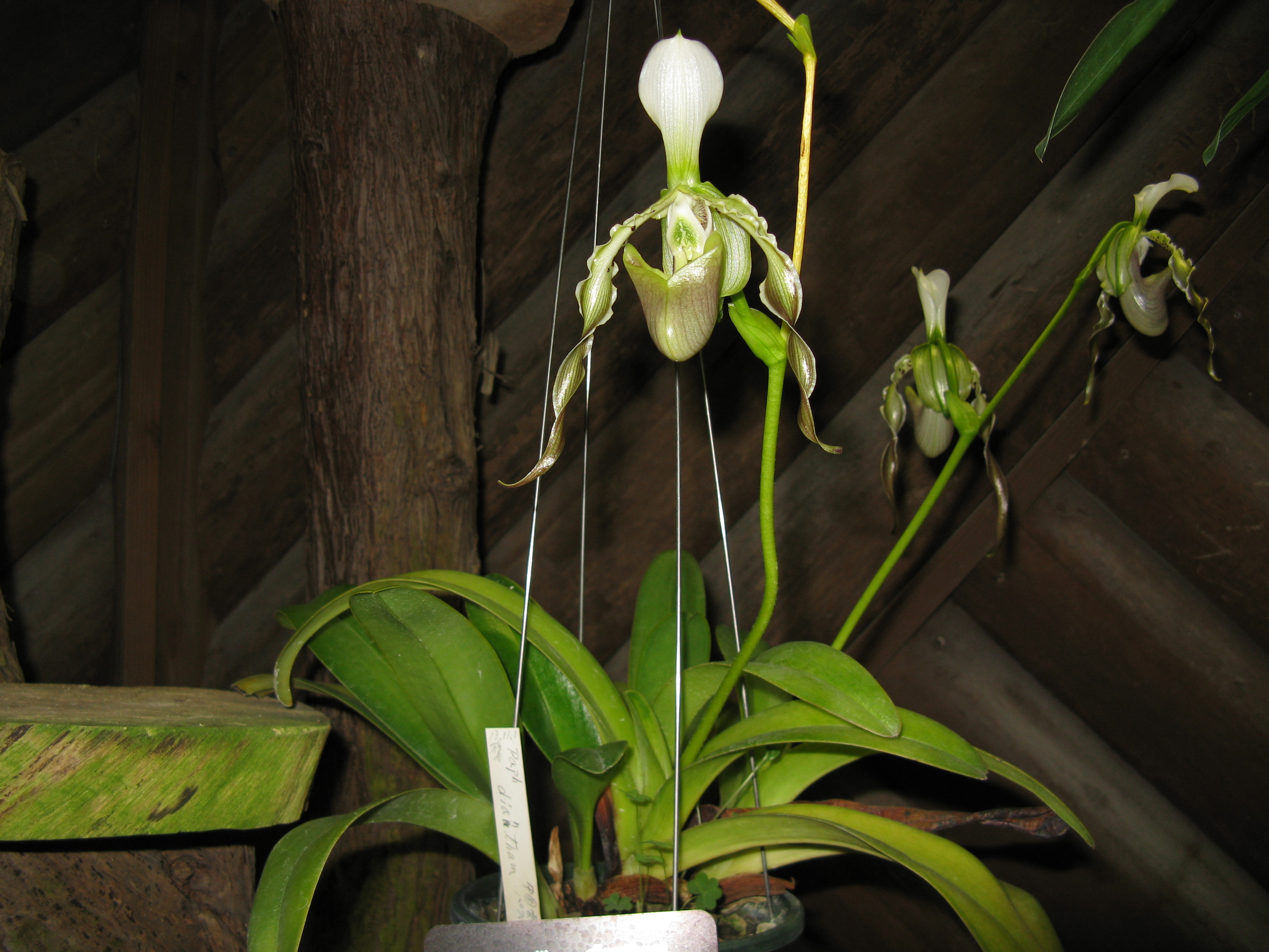 Paphiopedilum dianthum Place:Osaka Prefectural Flower Garden,Osaka,Japan